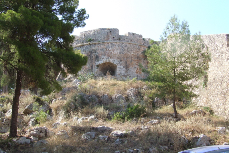 fortress from Pylos